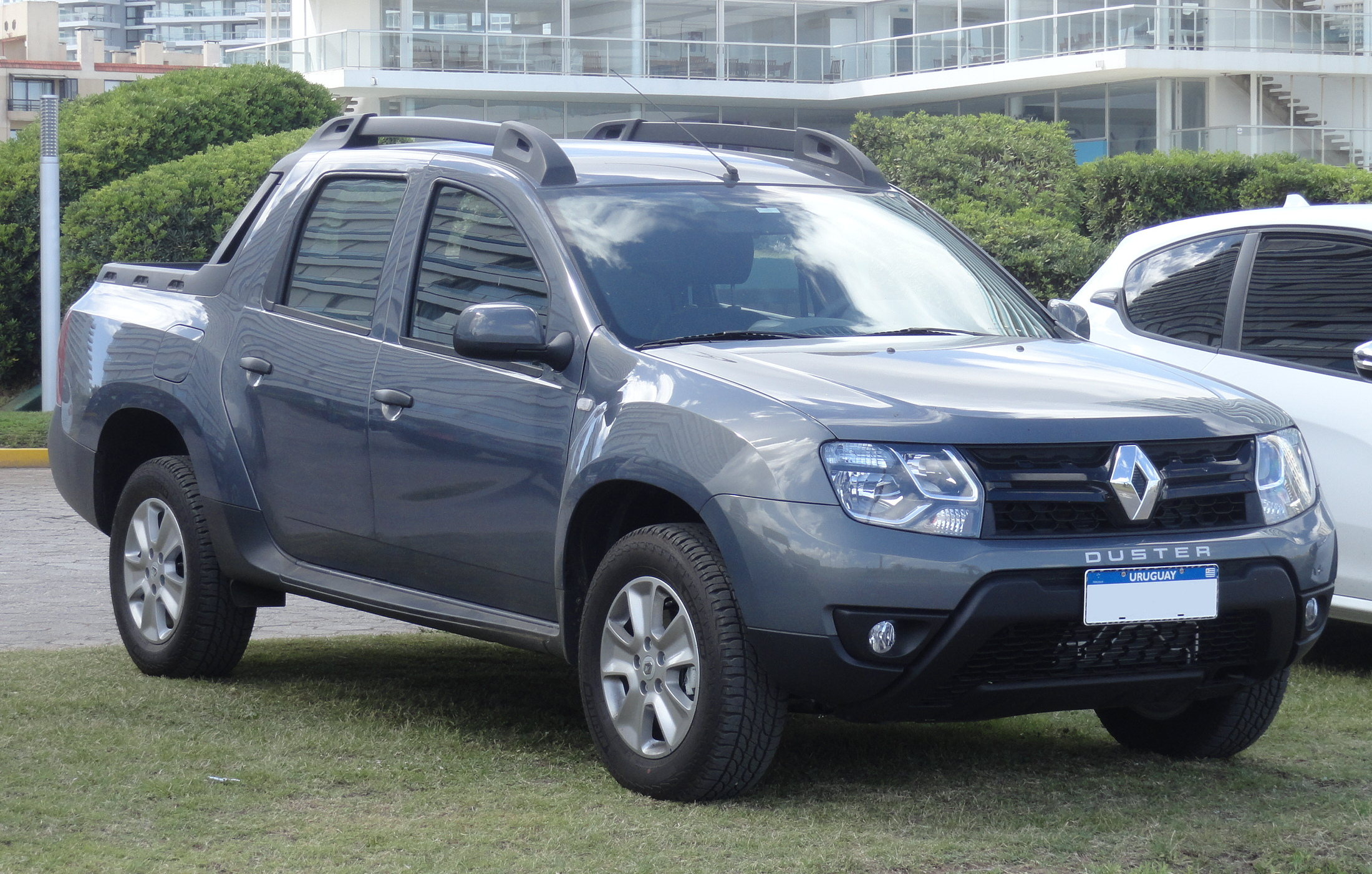 Renault Duster Oroch 2016 photographed in Punta del Este (Uruguay)